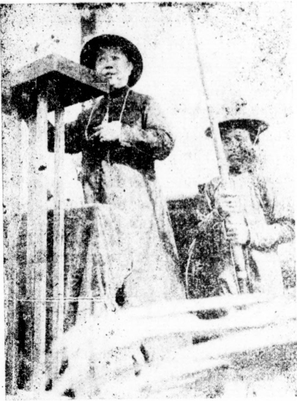 Bishop Nguyen Ba Tong, 1936, first bishop of Vietnam